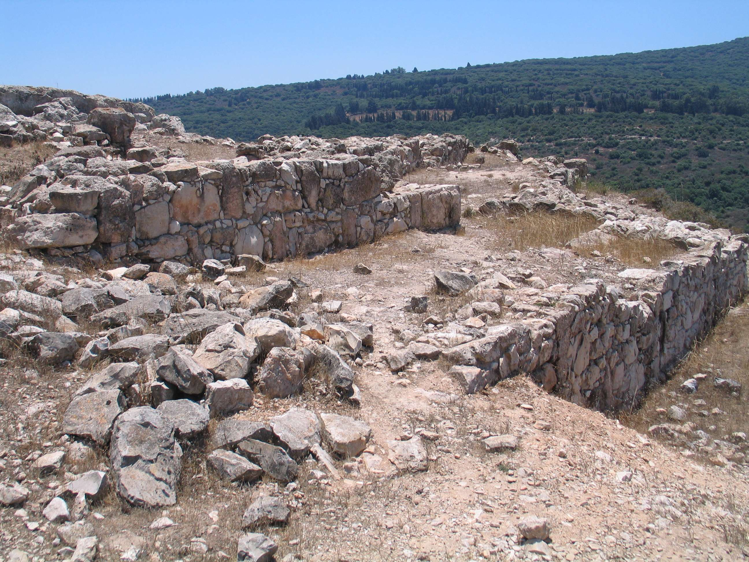 Tel Yodfat, Israel.